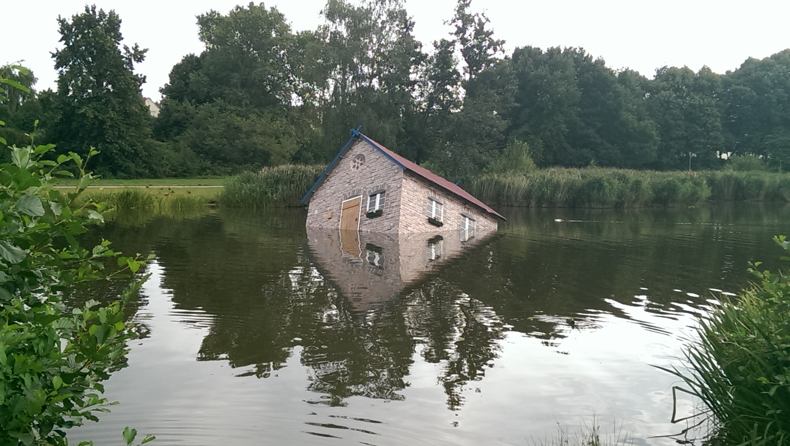 Work of Tea Makipaa in 2014.